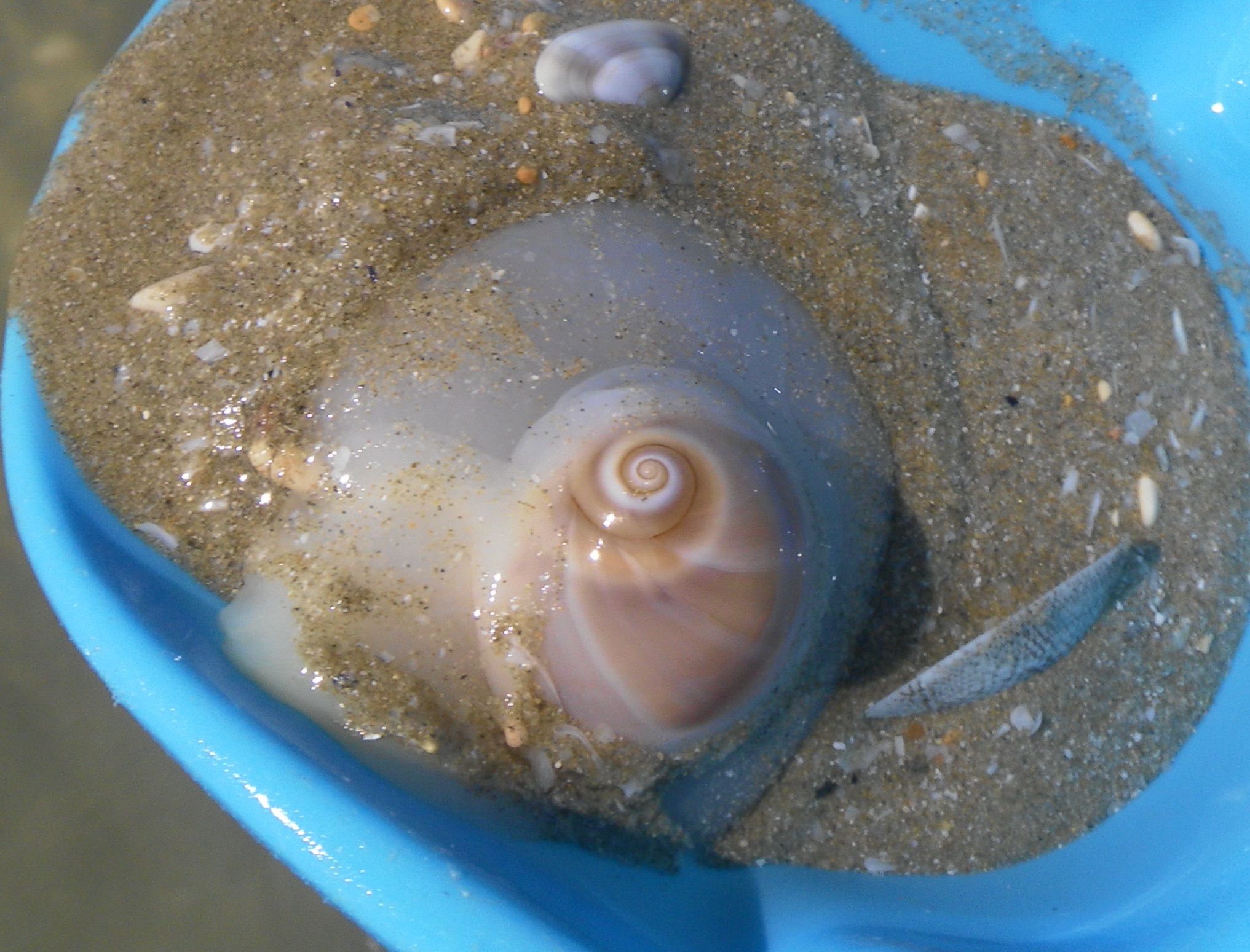 Live Neverita josephinia from Senigallia(ITALY)